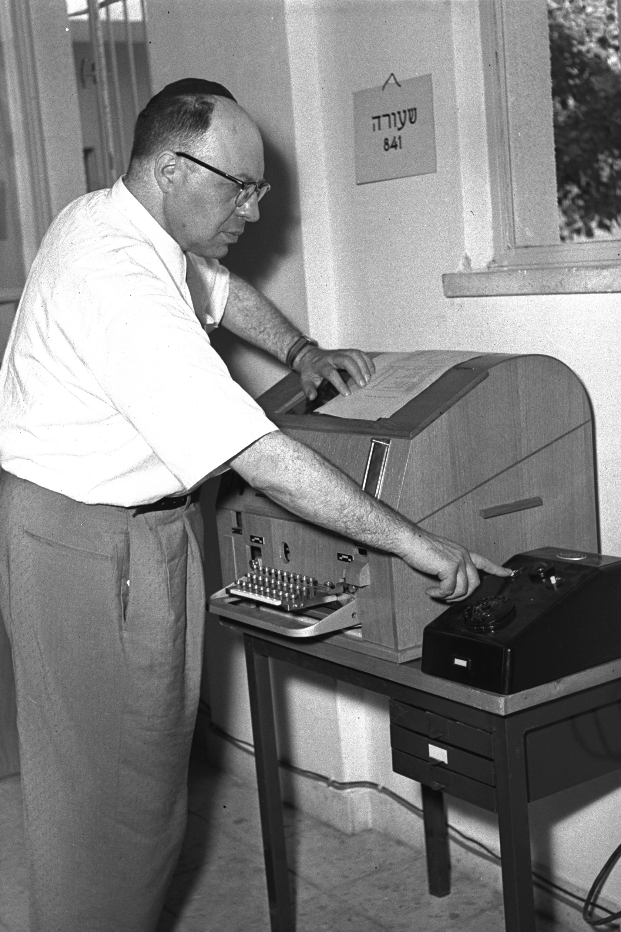 DR. YOSEPH BURG, MIN. OF POSTS, PUTS INTO ACTION ONE OF THE FIRST TELEPRINTER EXCHANGE MACHINES (TELEX) TO BE INSTALLED IN ISRAEL, AT THE G.P.O. TEL AVIV.